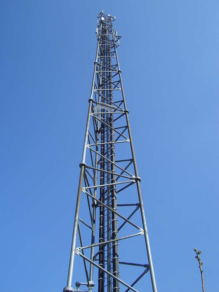 An aerial mast with a height of about 50 meters, which is obviously used to provide services for cellphone users nearby the Danube river in Vienna/Nussdorf (Austria).